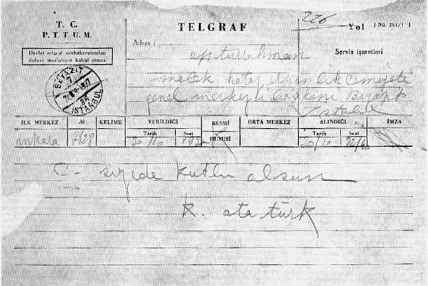 The telegram send by the Kemal Atatürk after the referendum by Hatay.